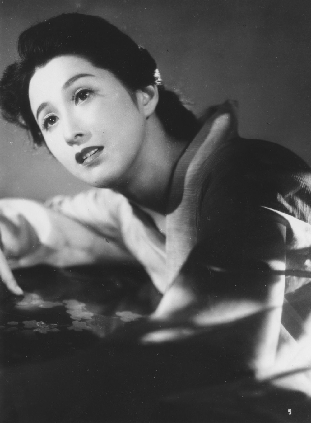 Michiyo Kogure in Yuki fujin ezu (1950)